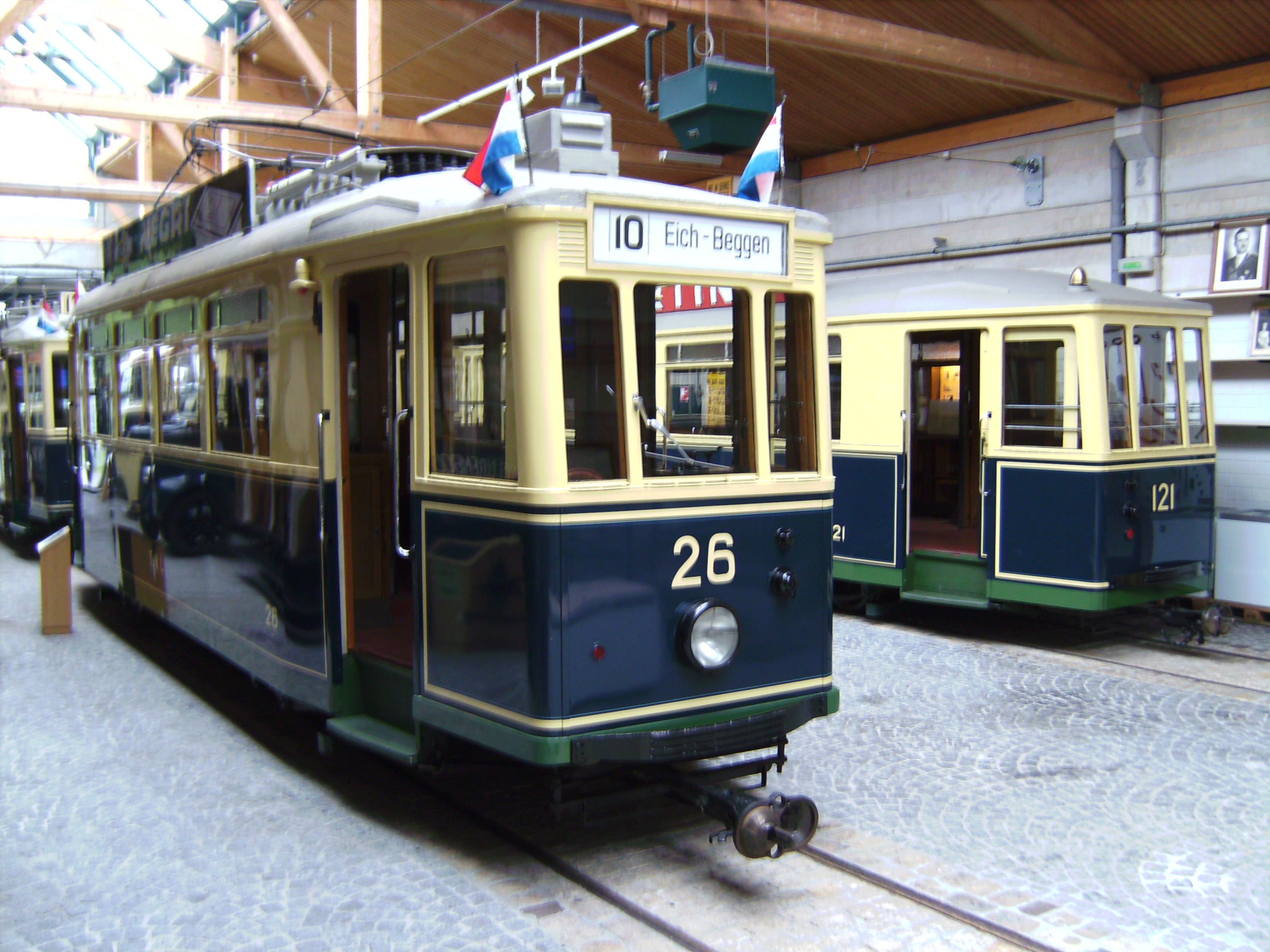 Two tramcars in the Luxembourg tram and autobus museum